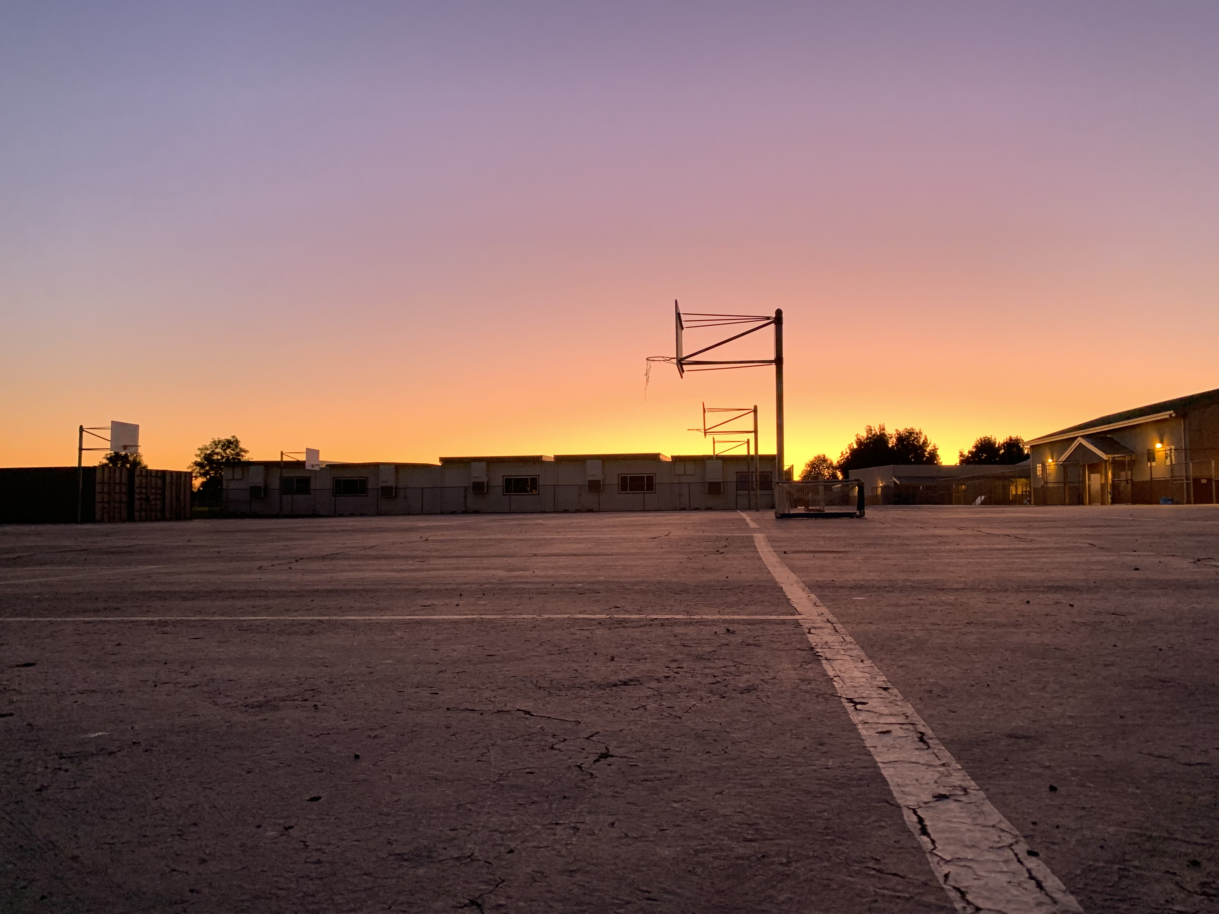 Franklin Highschool basketball courts